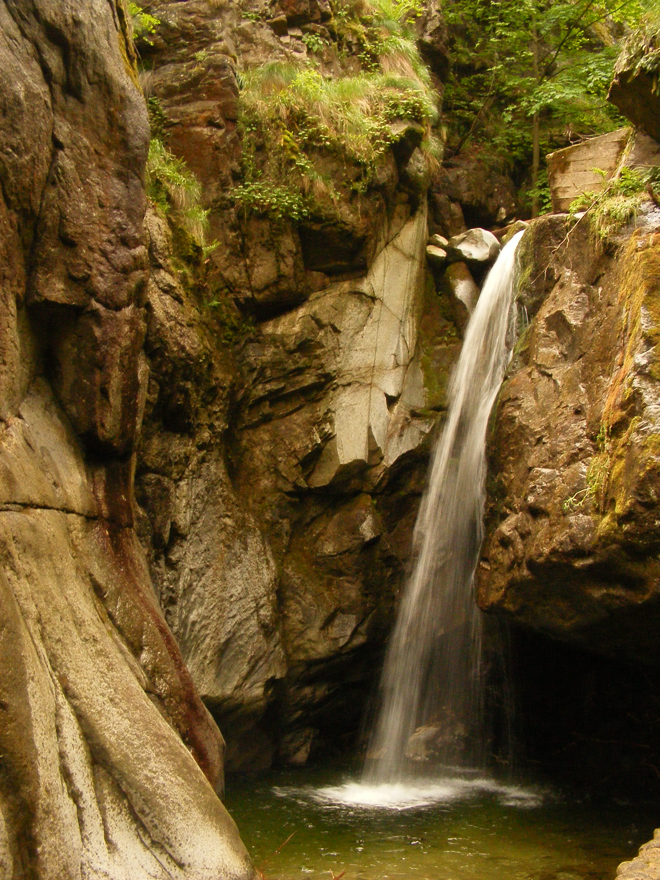 Kostenets Waterfall in Rila. Ibar Reserve, Bulgaria